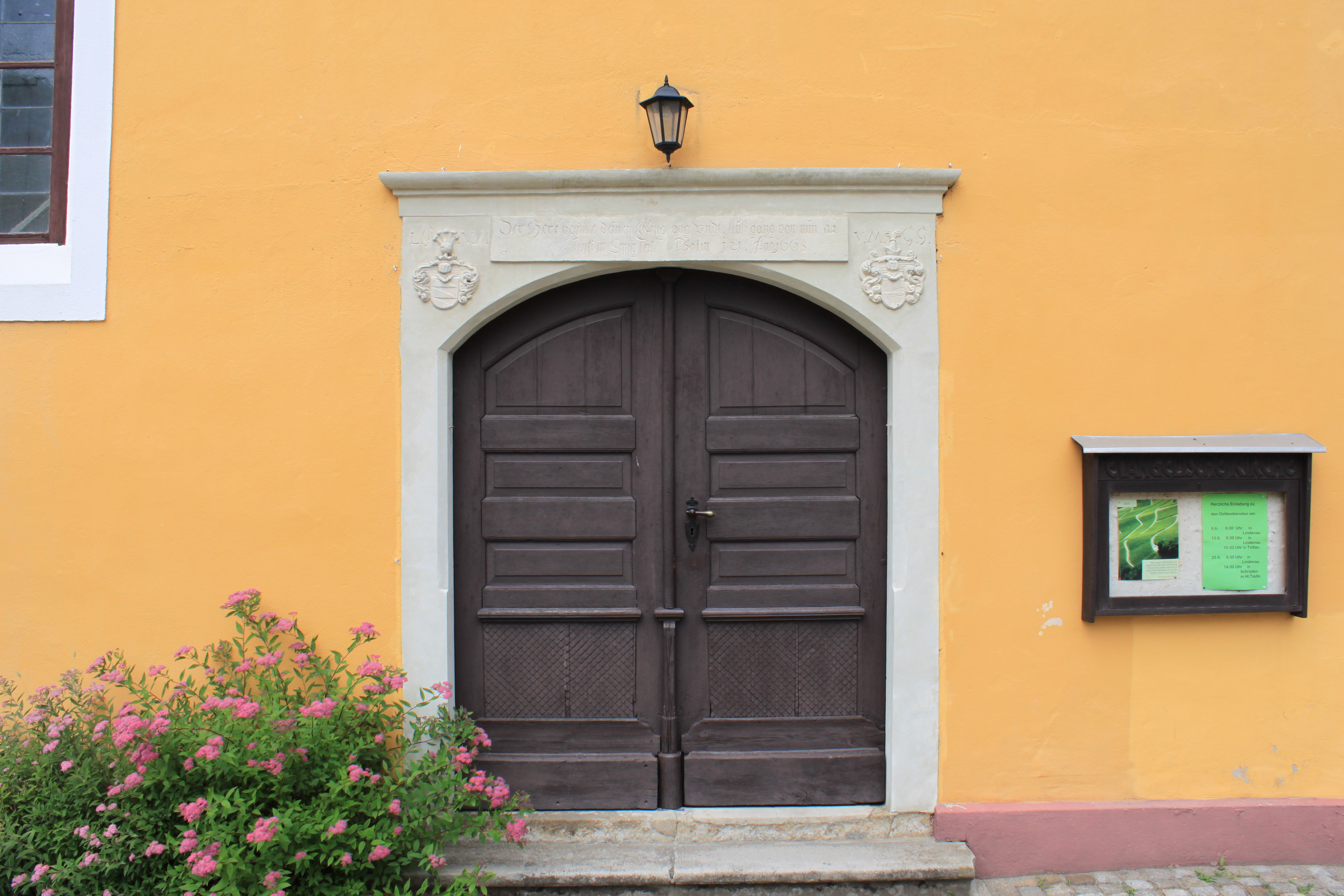 Castle Church Lindenau